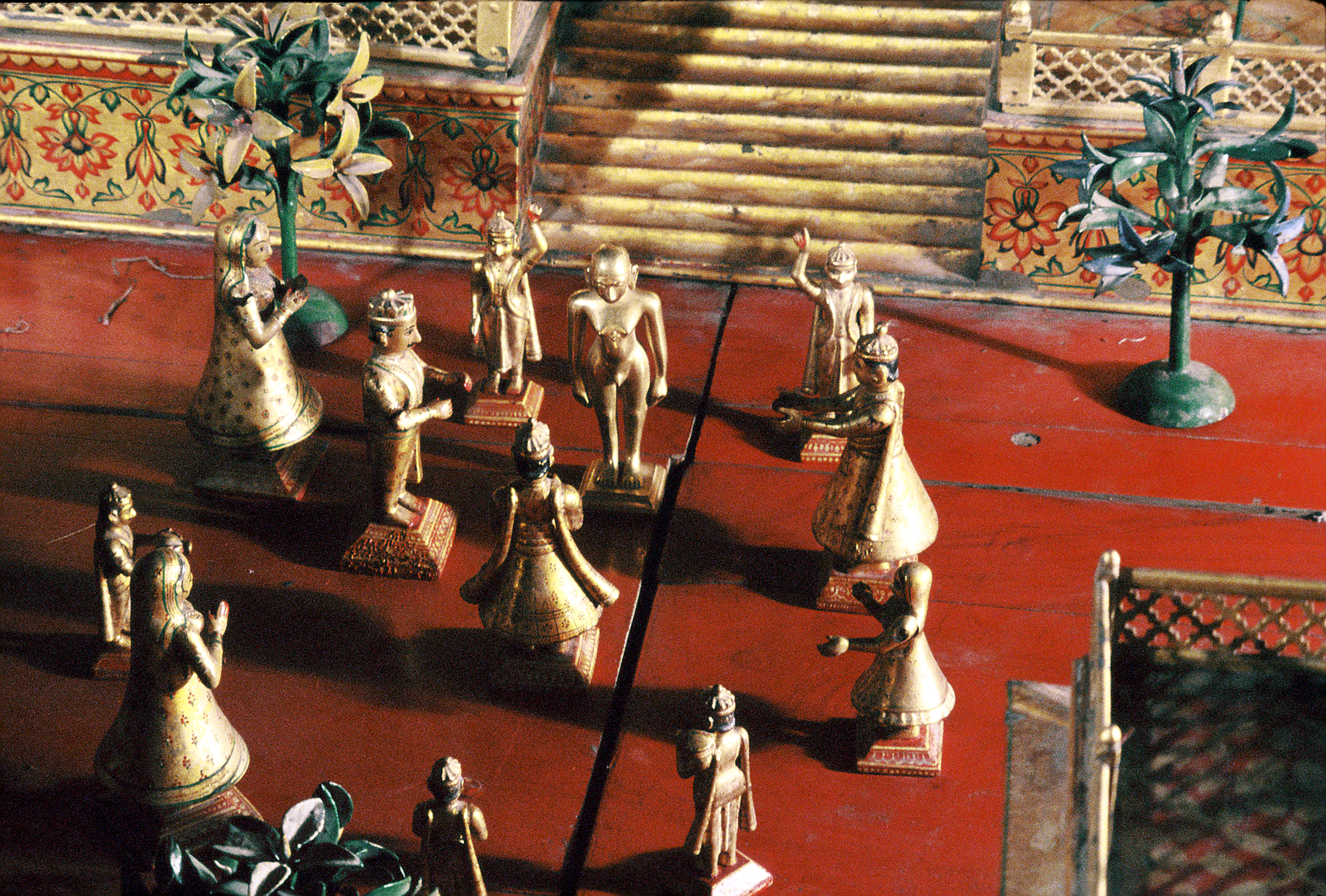 Shreyans, the king of Hastinapur offering Sugarcane juice to Lord Rishabhdev